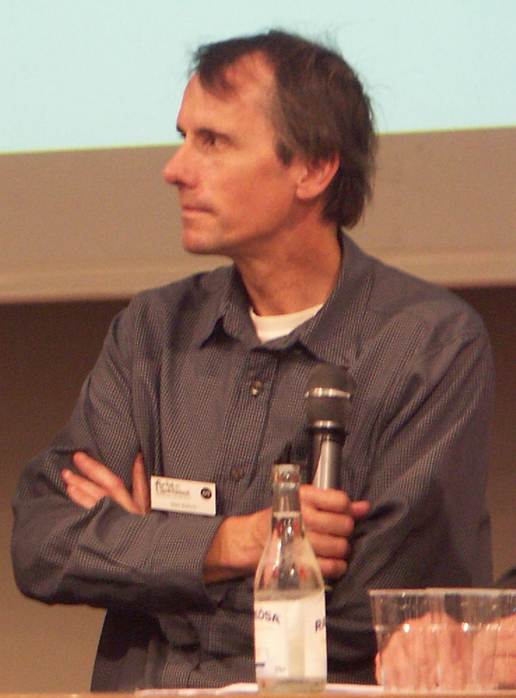 Mark Mattson, professor of Neuroscience at Johns Hopkins University. Pictured at the 2009 Göteborg Book Fair.